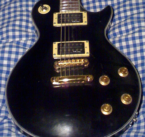 Detail of potentiometer and pick-up